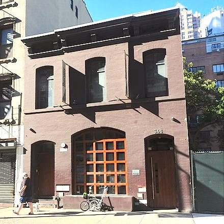 Looking across 52nd Street on a sunny morning